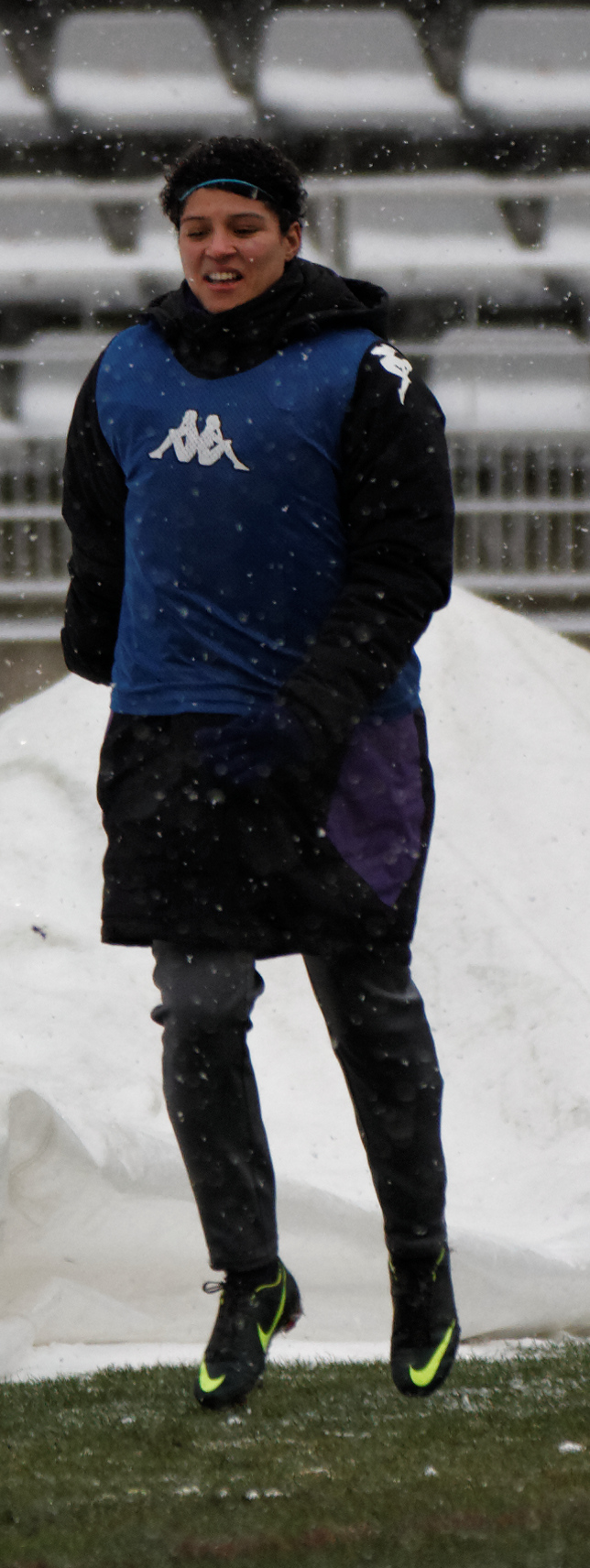 PSG-Toulouse, January 20th, 2013.